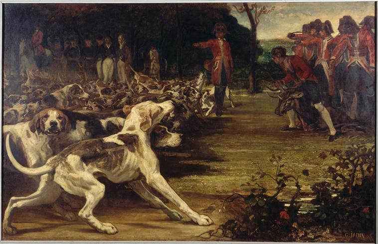 Louis Godefroy Jadin / Chaalis, musée de l'abbaye royale